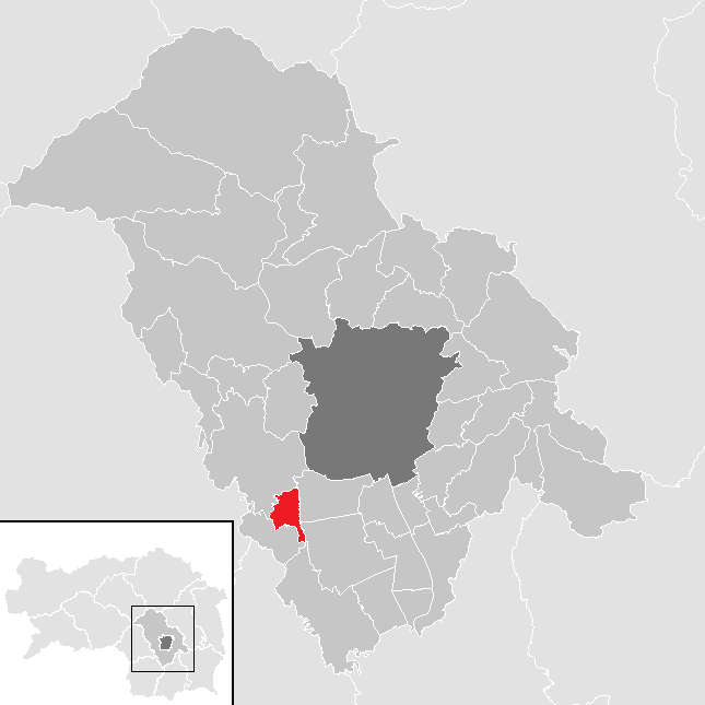 District Graz-Umgebung, Styria